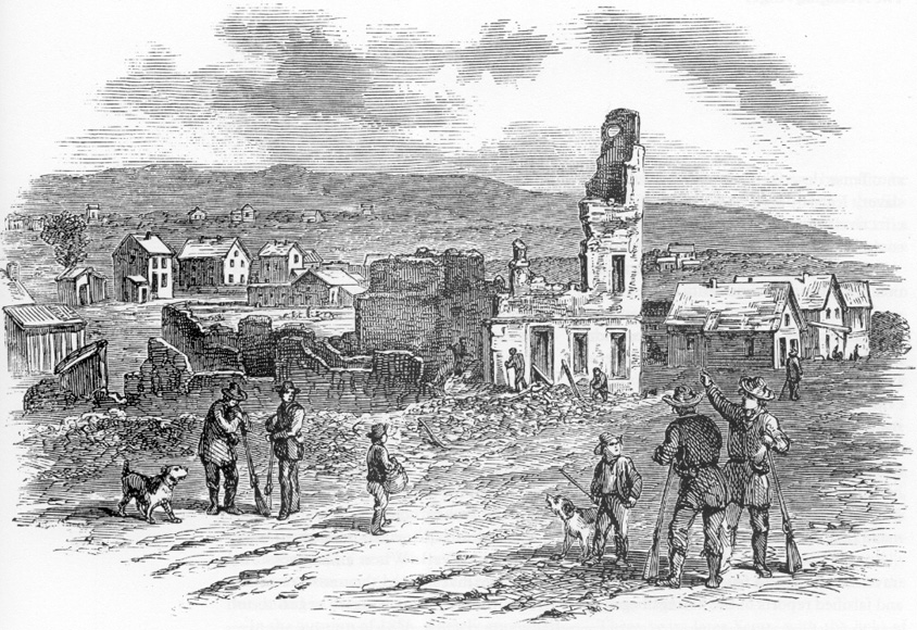 Ruins of the Free State Hotel in Lawrence (KAnsas) after the attack by Sheriff Jones, May 21, 1856.